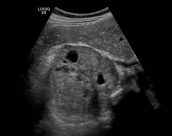 pheochromcytoma on ultrasound